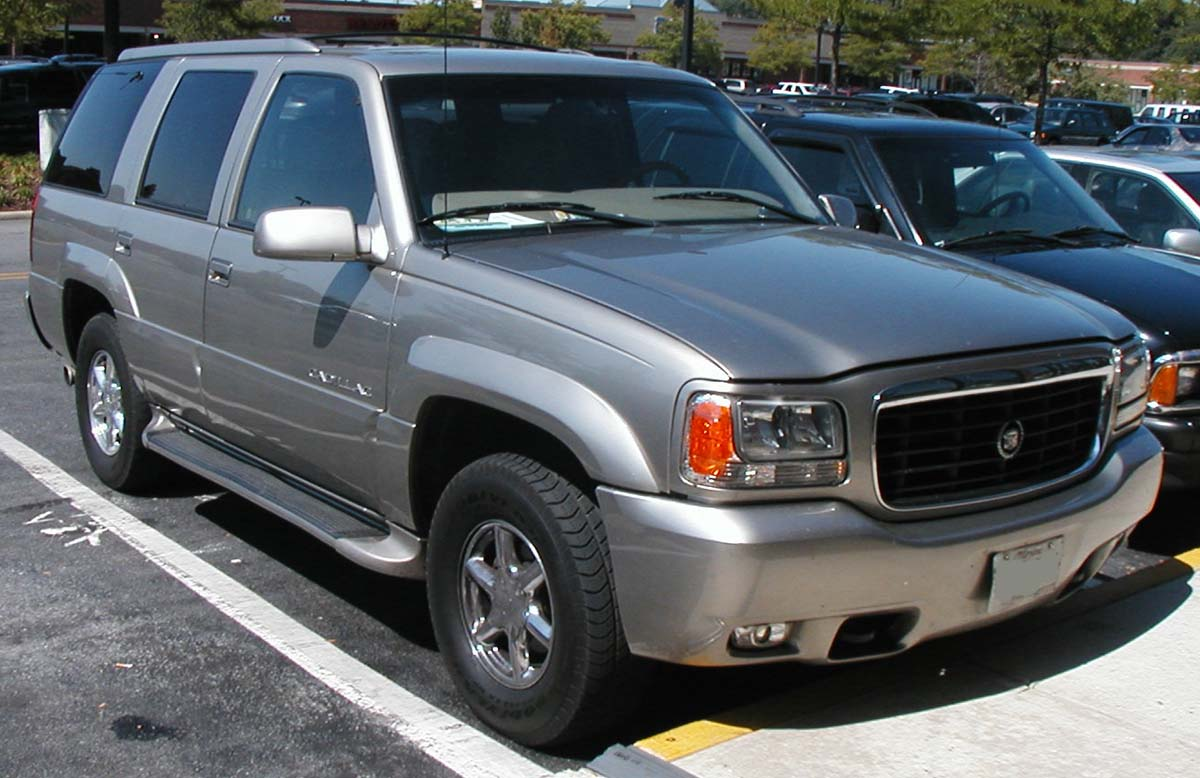 1999-2000 Cadillac Escalade photographed in USA.